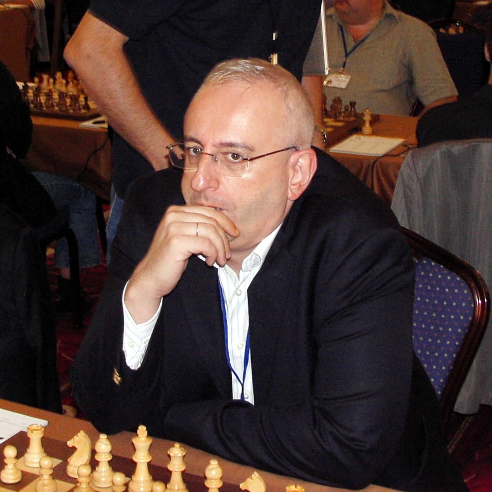 GM Suat Atalik (Turkey), Heraklion 2007